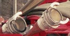 Half Guillemin symmetrical clutch of a fire hose